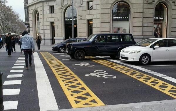 Advanced stop line for motobikes in Barcelona